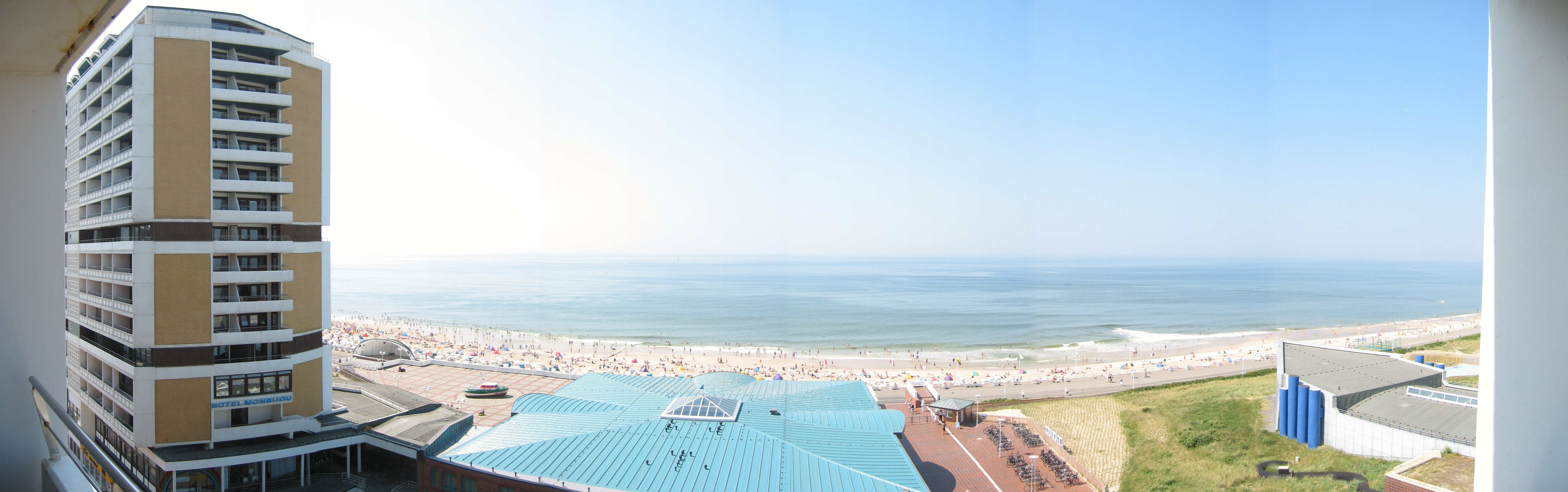 Panorama shot of Westerland, Sylt, Germany.